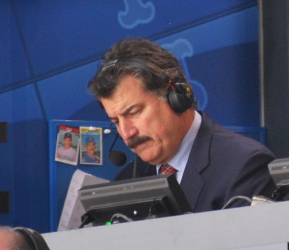 Former Mets player and current broadcaster Keith Hernandez in the SportsNet New York (SNY) broadcast booth in 2010.